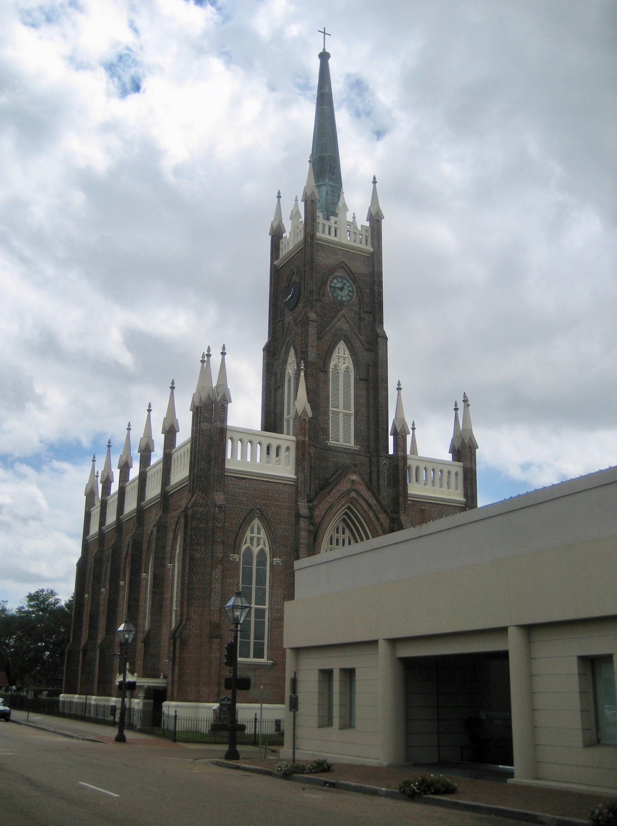 Old section of Natchez, Mississippi showing the Basilica of Our Lady of Sorrows (Saint Mary Basilica).